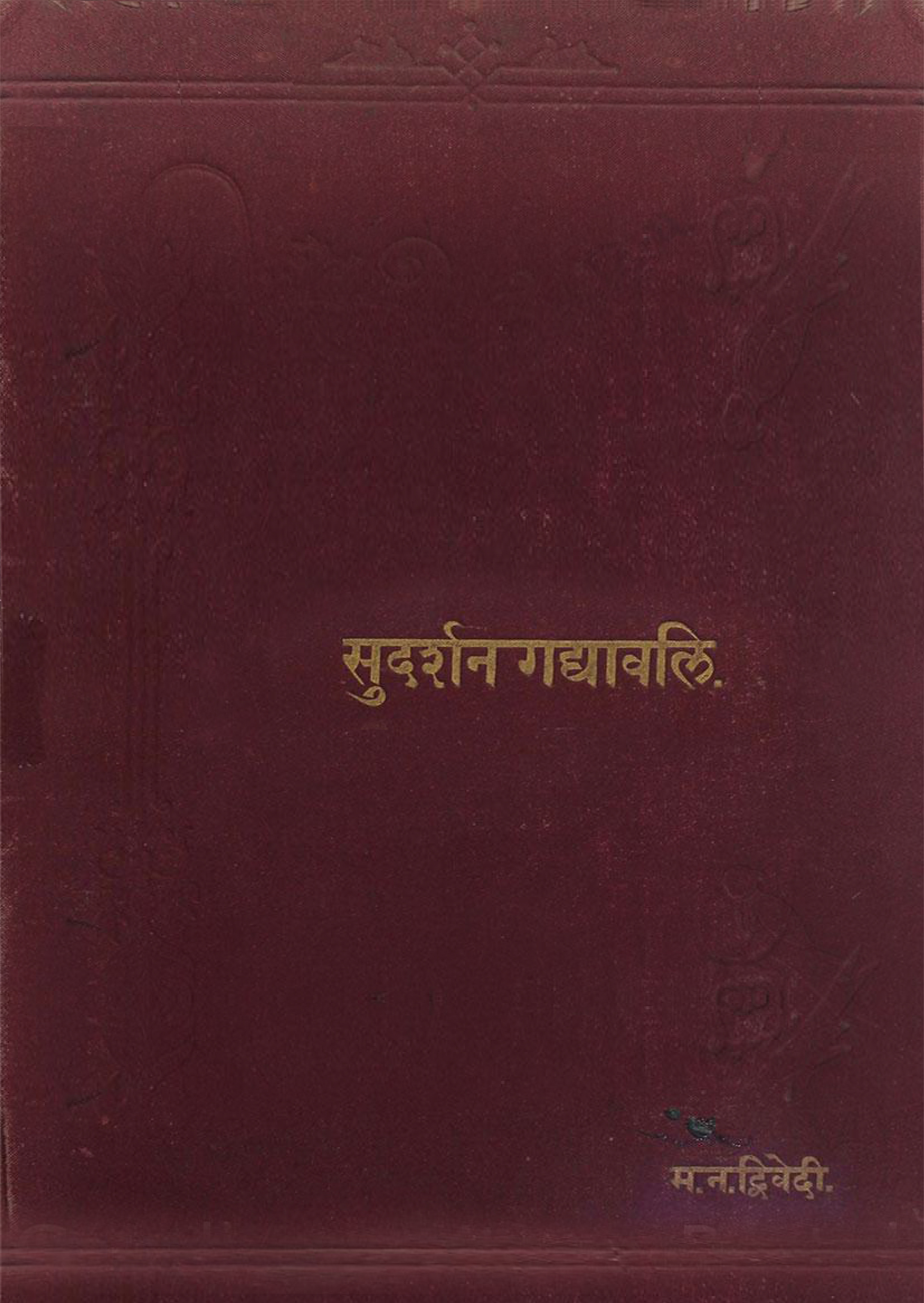 Title page of 'Sudarshan Gadyawali' by Manilal Nabhubhai Dwivedi